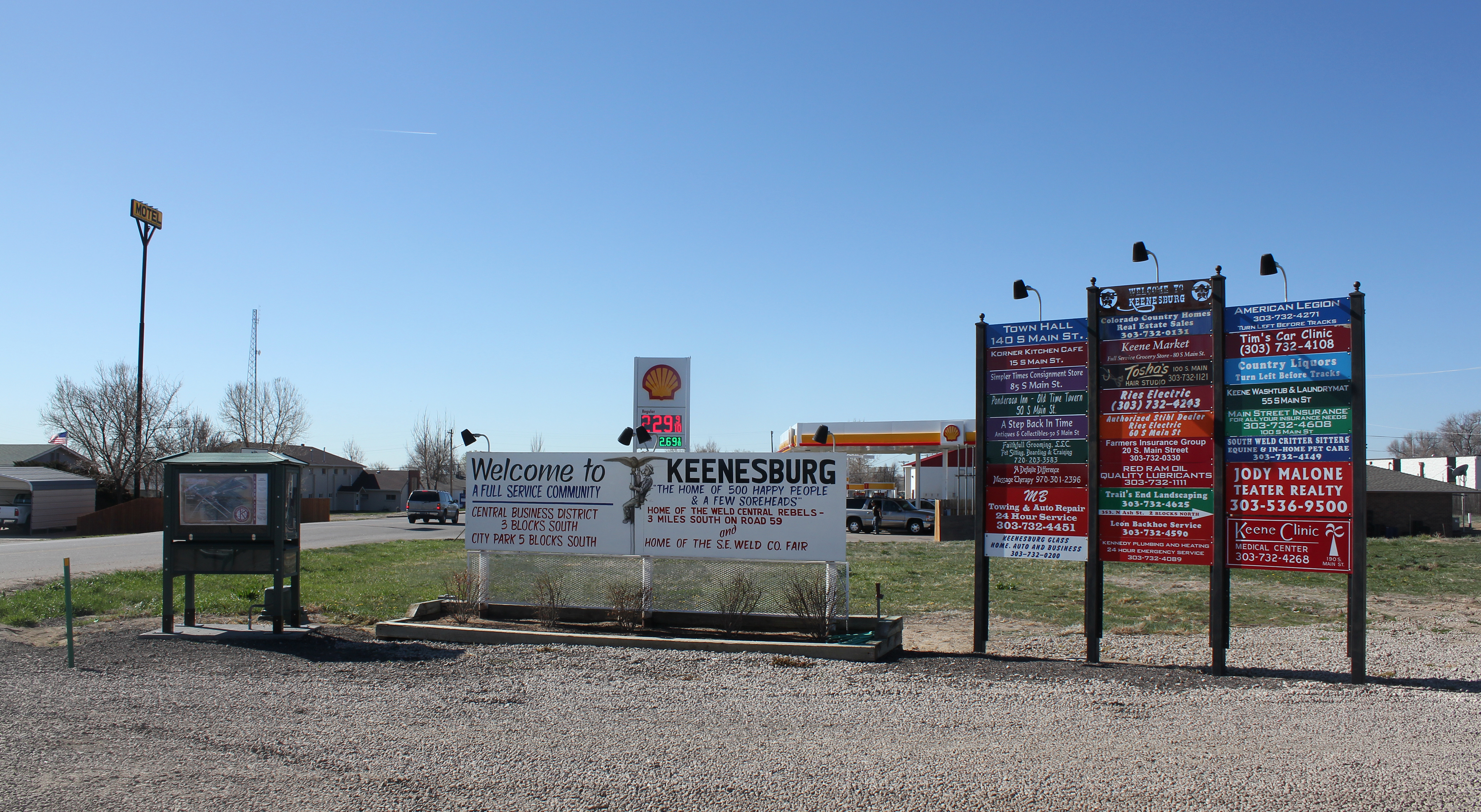 Signs located in the center of Keenesburg, Colorado.